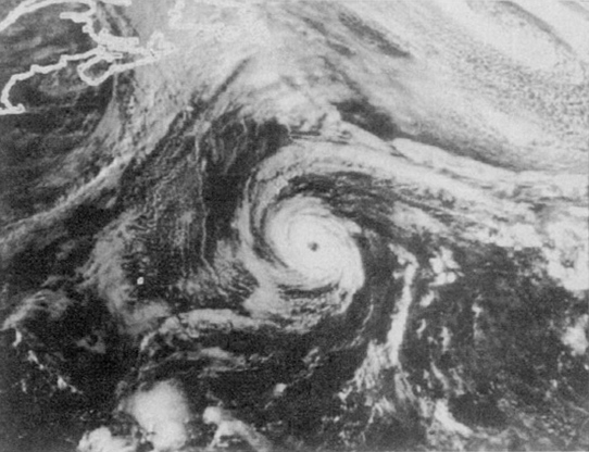 Satellite image of Hurricane Florence in the northern Atlantic Ocean. Florence was the strongest hurricane of the 1994 Atlantic hurricane season.